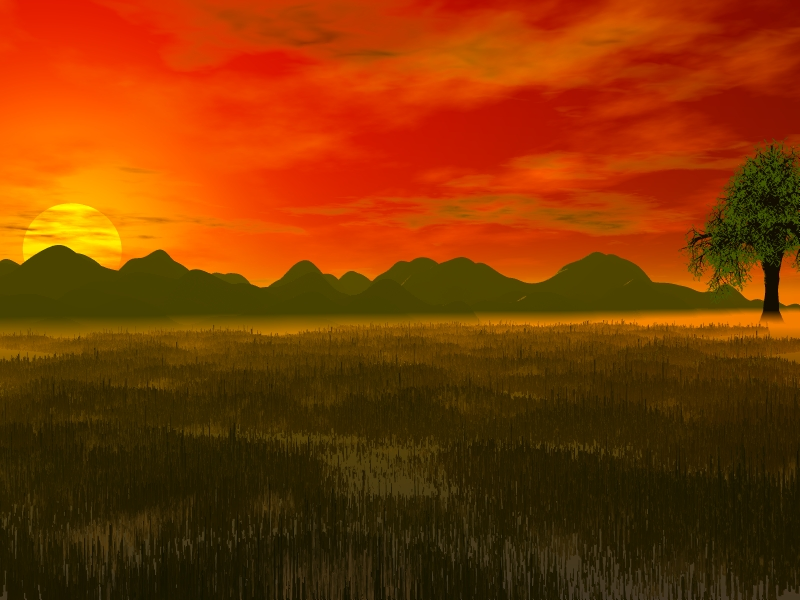 Demonstration of Bryce 3D program. Created by G.E. Mont. From the website: The website noted: " Copy Free means that you can take a copy of any 3D Freebie Gallery image and use it for any purpose you might desire, from T-shirts to web-pages. The images, or any portion of any image, can be manipulated with image software to get whatever effect you need, and used for whatever purpose without need to get permission from, or give credit to, the artist, G. E. Mont."